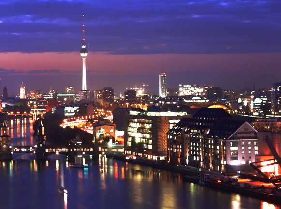 Berlin at night. Seen from the Allianz building in Treptow, showing the Universal building on the right at the river Spree and the TV-Tower at Alexanderplatz